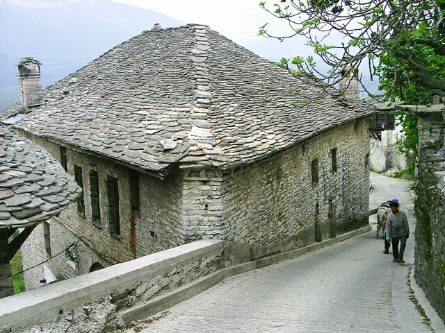 Town of Gjirokastër, Albania